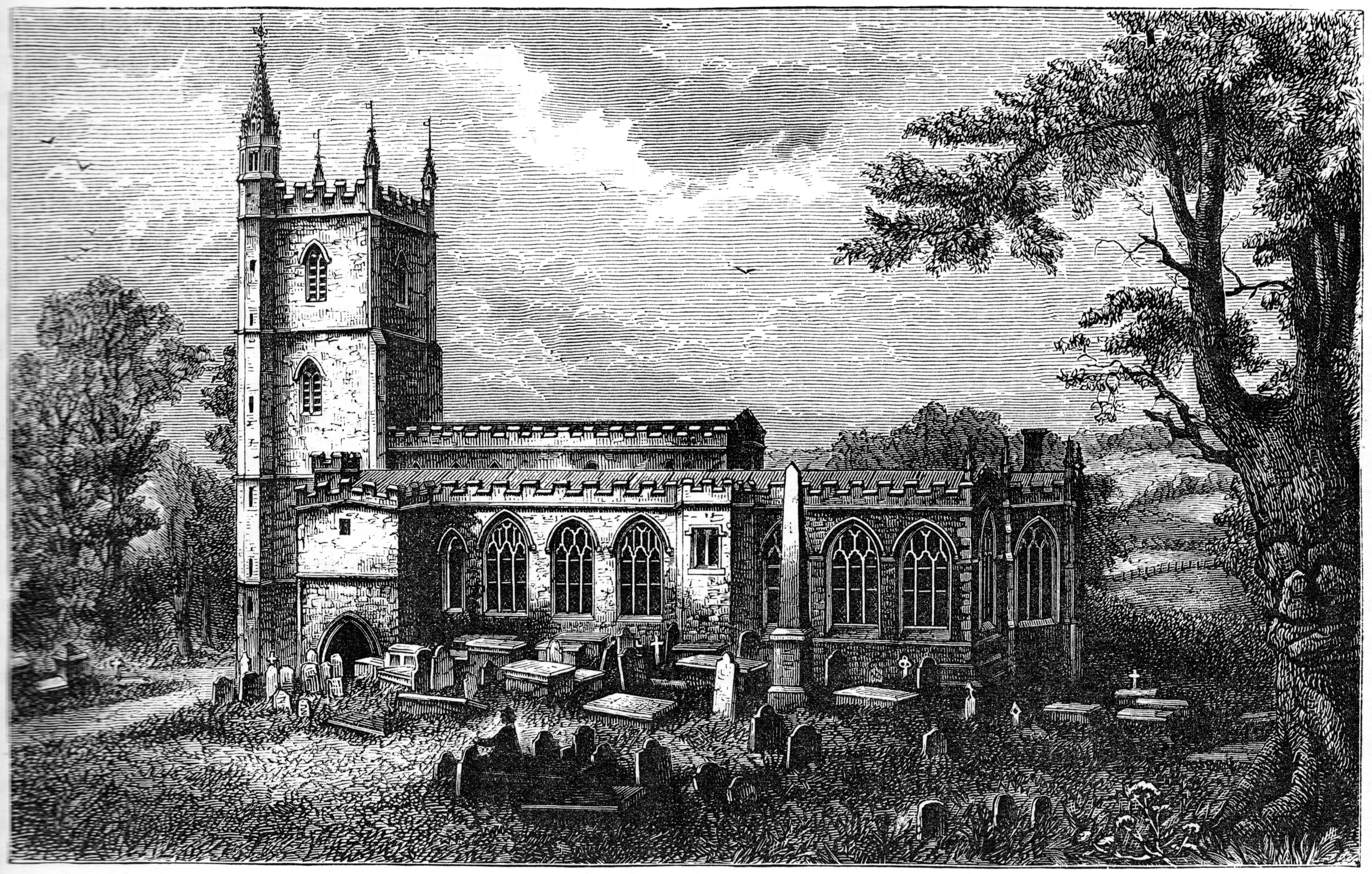 Engraving of Holy Trinity parish church, Westbury-on-Trym, Bristol, England, seen from the south